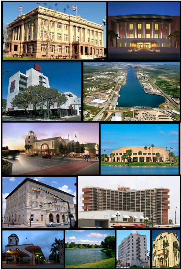 These are buildings, structures and areas in Brownsville, Texas.